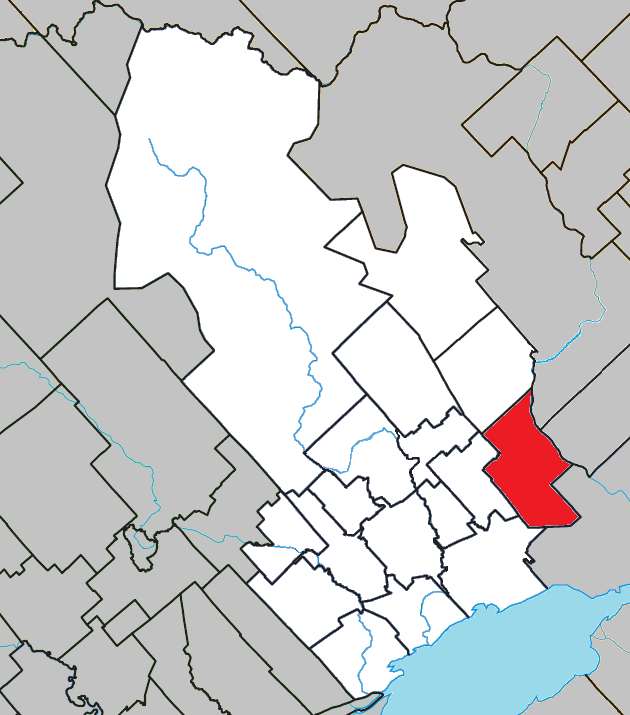 Location of Saint-Étienne-des-Grès, Quebec within Maskinongé Regional County Municipality.